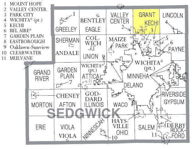 Map of Sedgwick County, Kansas highlighting Grant Township